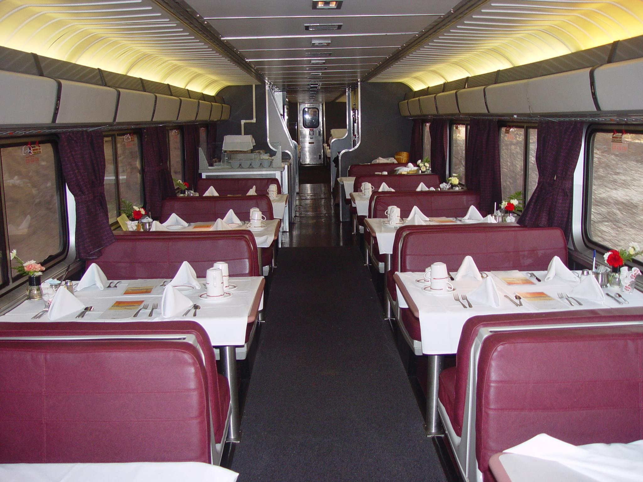 Train dining car in USA